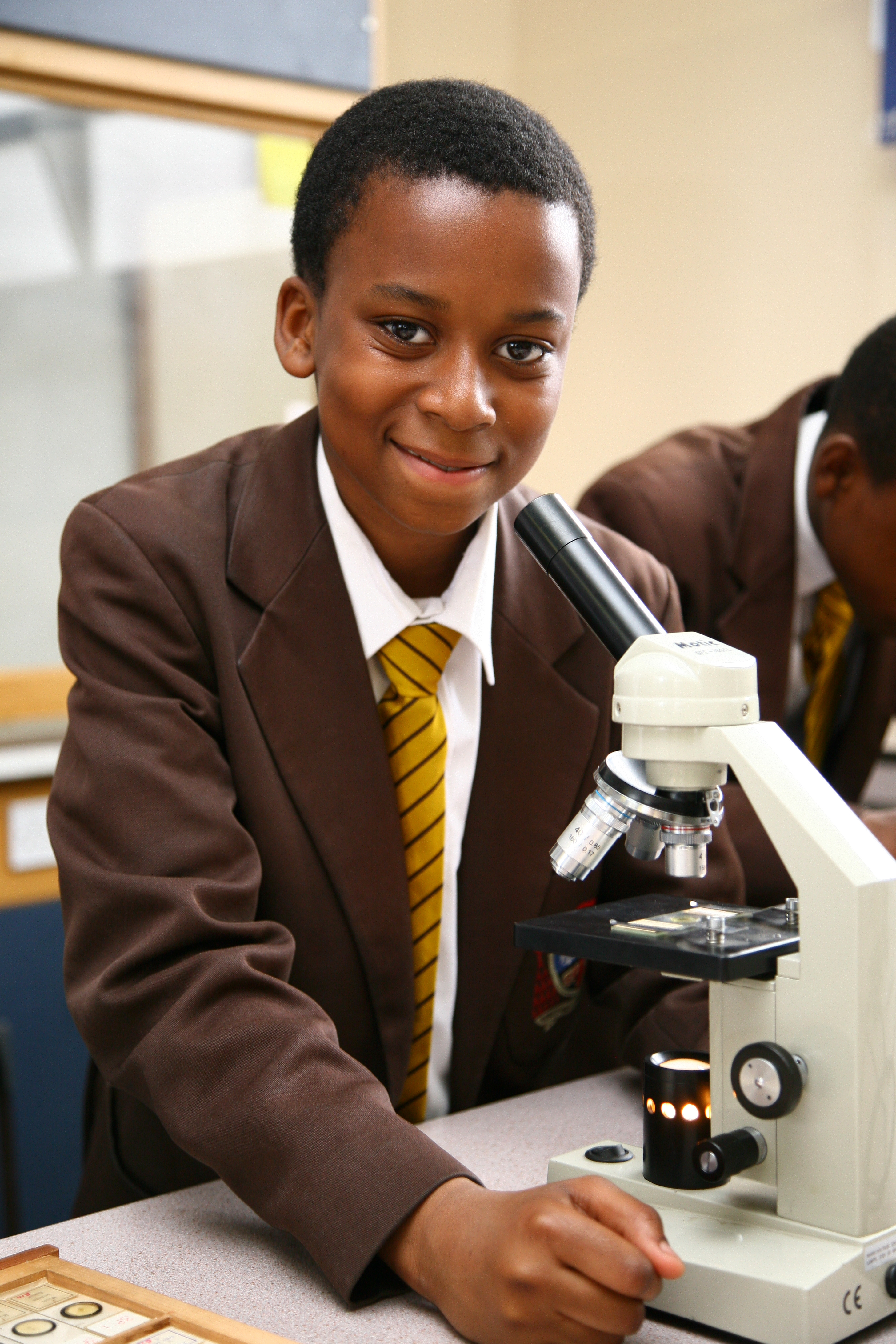 The uniform of Years 7 - 8.